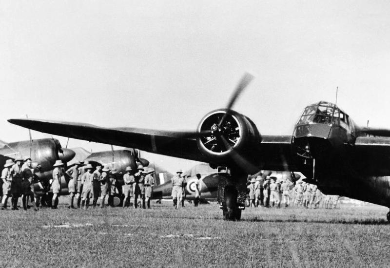 A Bristol Blenheim Mark I of No. 62 Squadron RAF taxies past a line of Brewster Buffaloes of Nos 21 or 453 Squadrons RAAF, at Sembawang, Singapore.